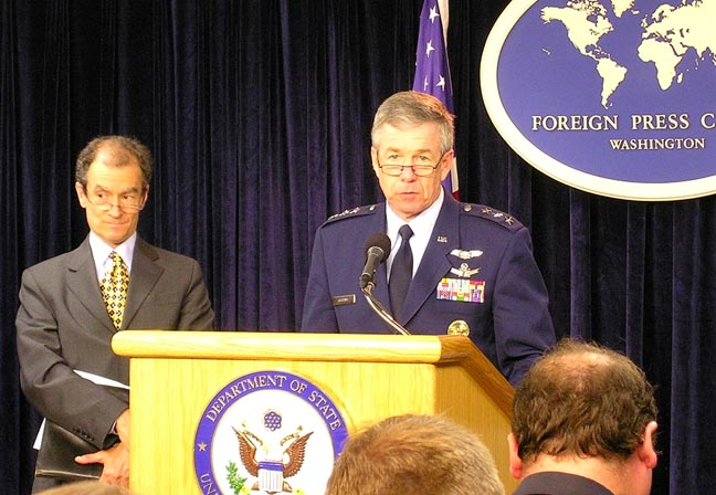 Air Force Lt. Gen. Henry A. Obering [right], Director of the U.S. Missile Defense Agency; and Daniel Fried [left], Assistant Secretary of State for European and Eurasian Affairs at the Washington Foreign Press Center Briefing on "Missile Defense in Europe."